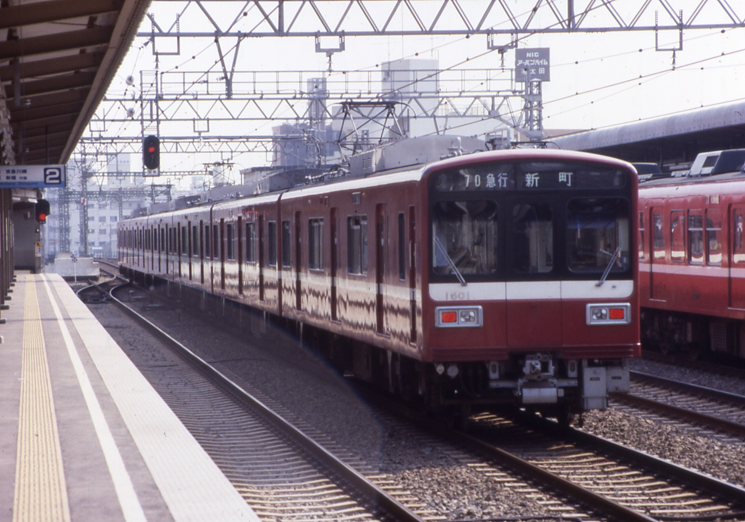 Keikyu 1500 series EMU set 1601 passing through Minami-Ota Station